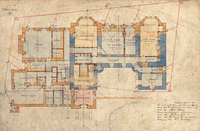 Plan of the ground floor of Pitreavie Castle